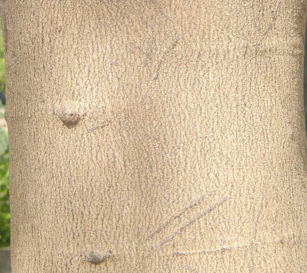 Bark of Delonix regia tree. It is a tree planted in avenue plantation. It is an ornamental plant with bright red coloured flowers.